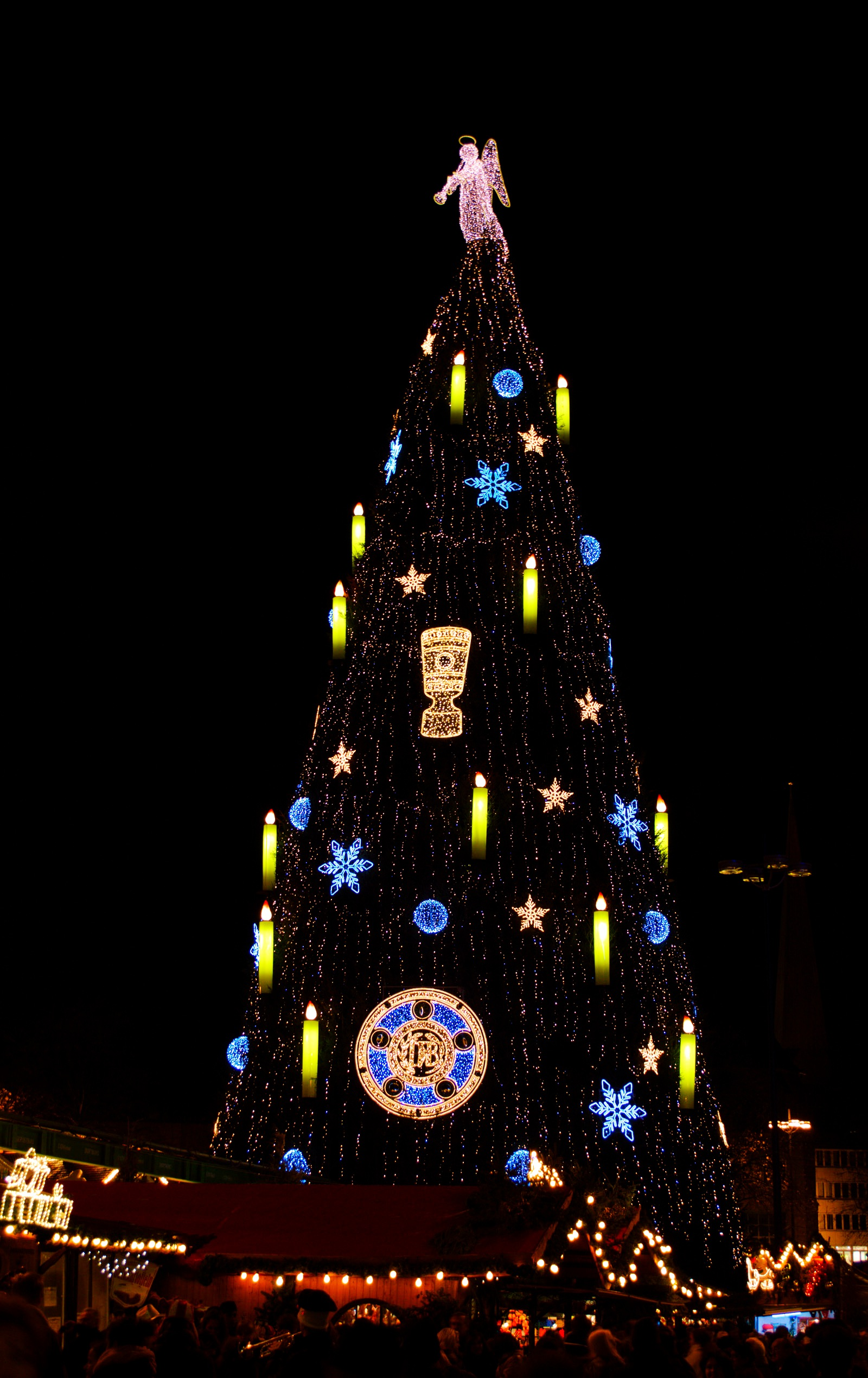 The christmas tree at the center of the christmas market here in Dortmund, Germany. Since Borussia Dortmund won the german soccer cup again they decorated it with soccer related ornaments. I